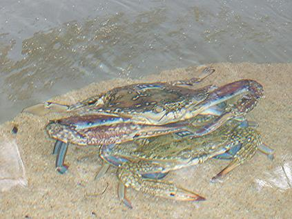 Copulating pair of blue swimmer crabs, Portunus pelagicus (2005): Photo by: Nicholas Romano